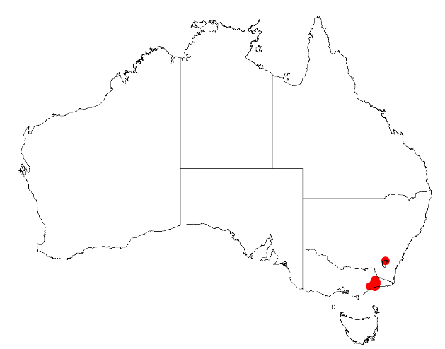 Acacia caerulescens Occurrence data from Australasia Virtual Herbarium downloaded from on 8 December 2018